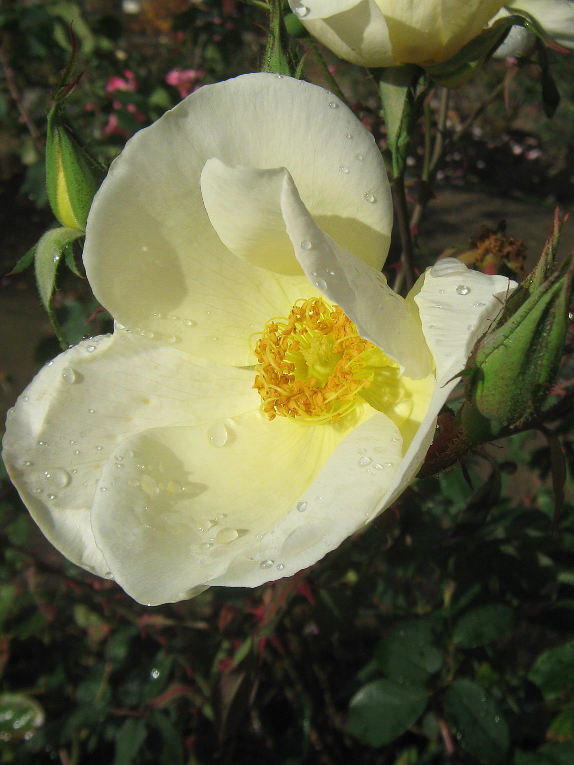 Rose "Bishop's Lodge Precious Porcelain" single yellow hybrid tea found at Hay, NSW; Photographed at Maddingley Park, Bacchus Marsh, Victoria 2 May 2013